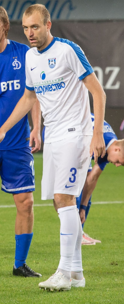 Vladimir Ponomaryov (footballer, born 1987)